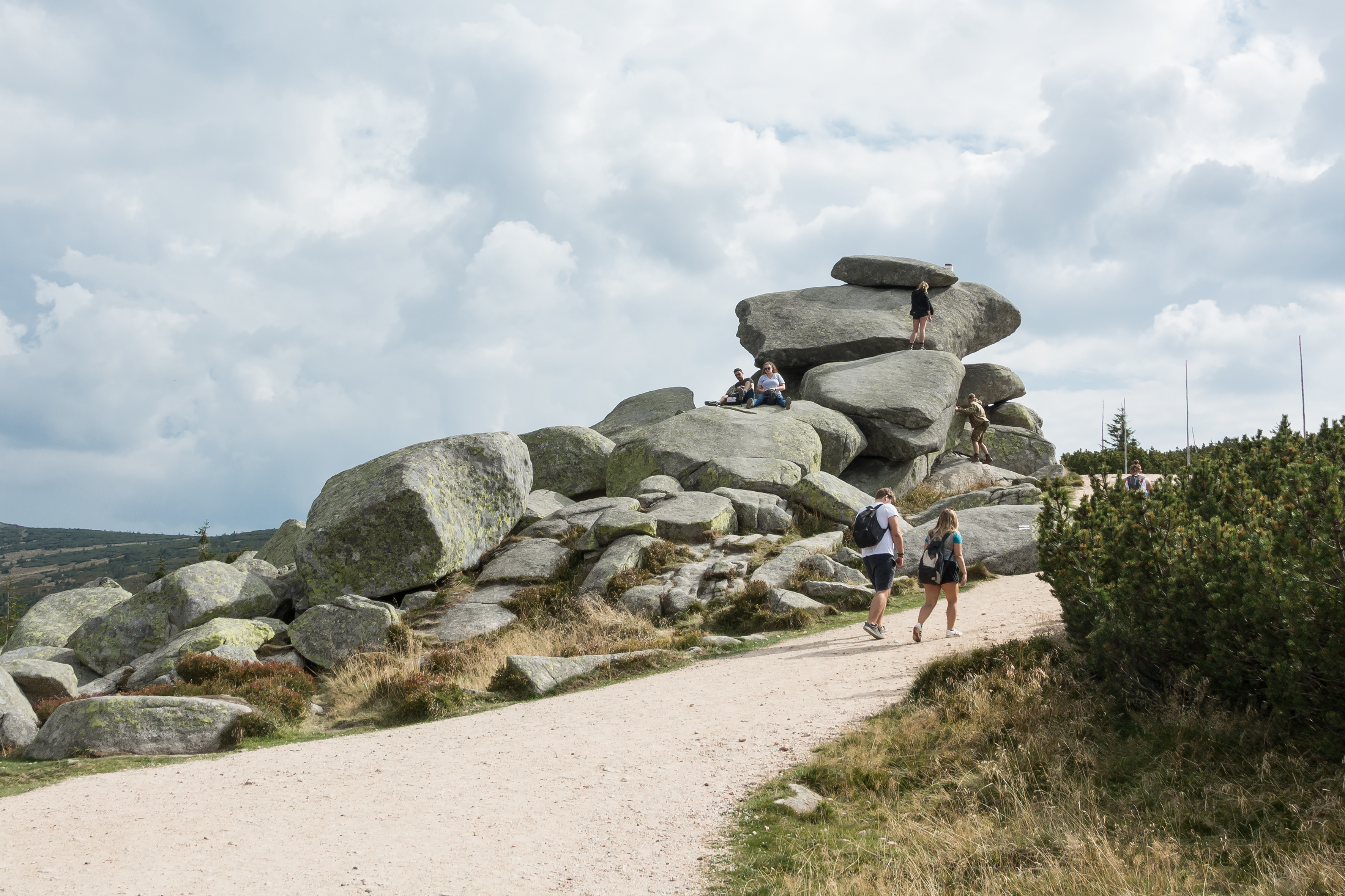 Twarożnik, Krkonoše, Sudetes